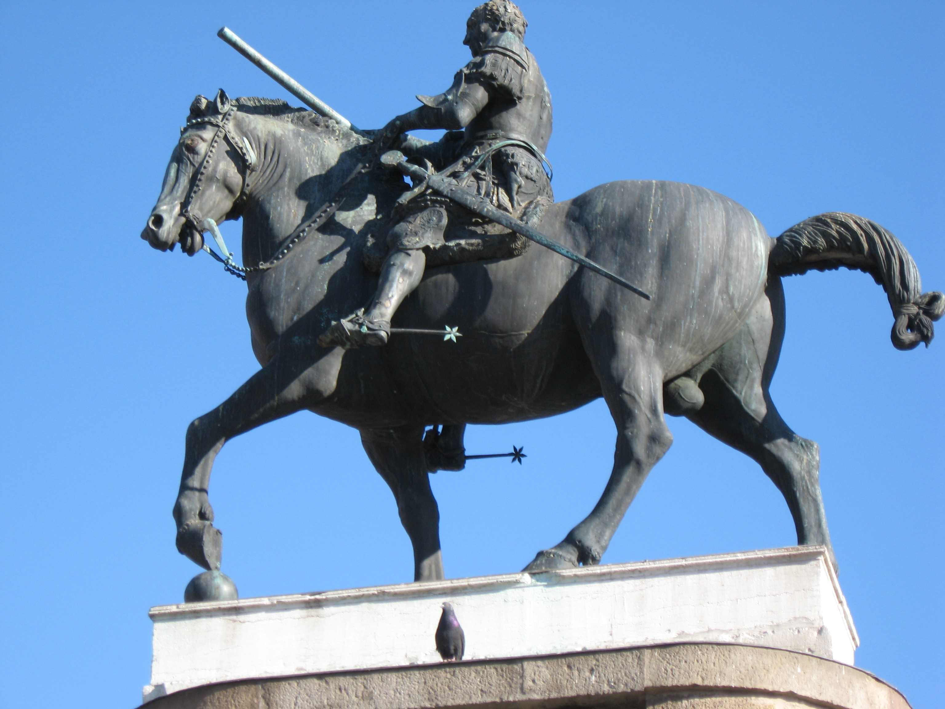 Equestrian statue of Gattamelata by Donatello, on Piazza del Santo (Padua)